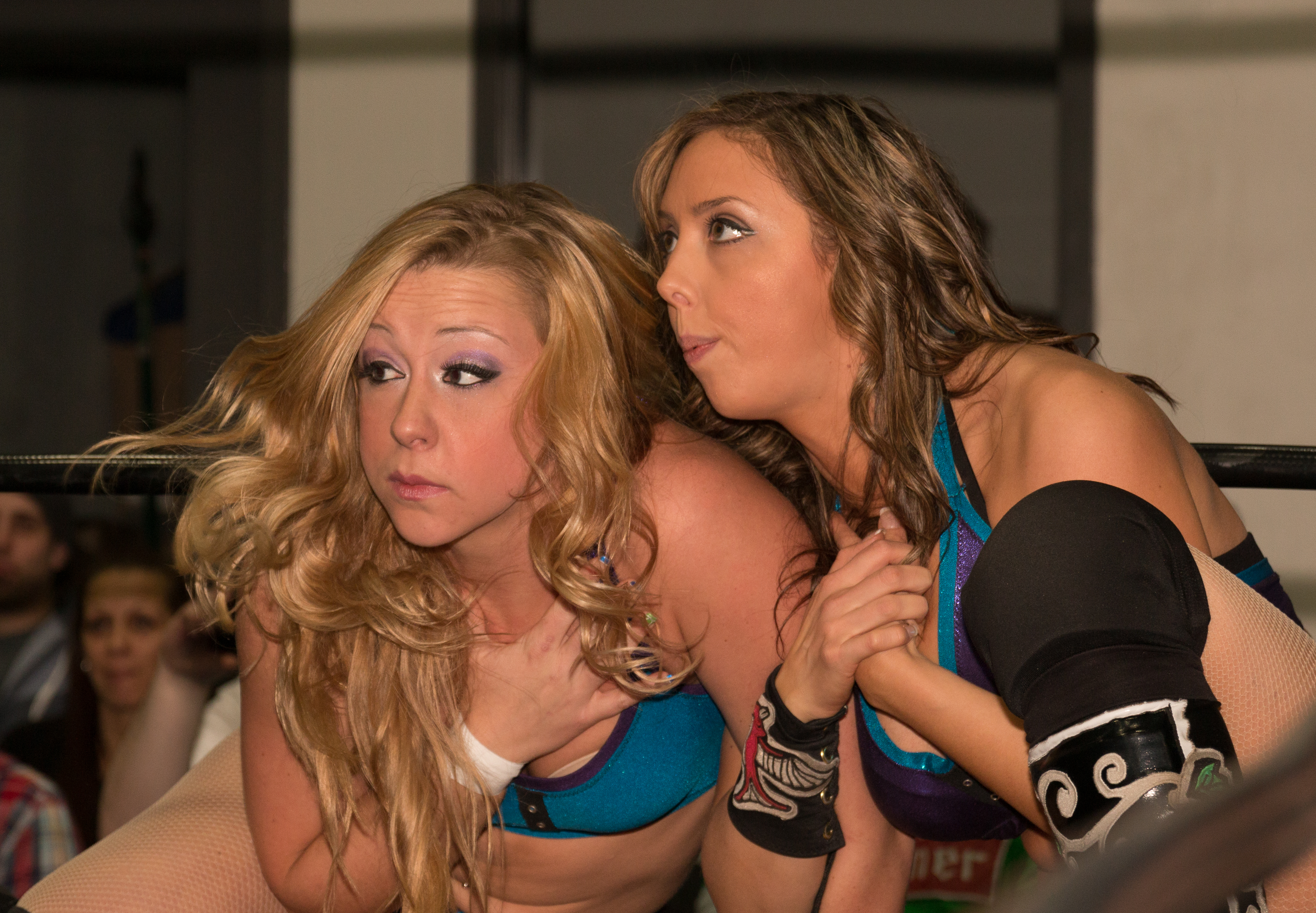 Kimber Lee (left) & Cherry Bomb during a match at Smash Wrestling in Mississauga, ON